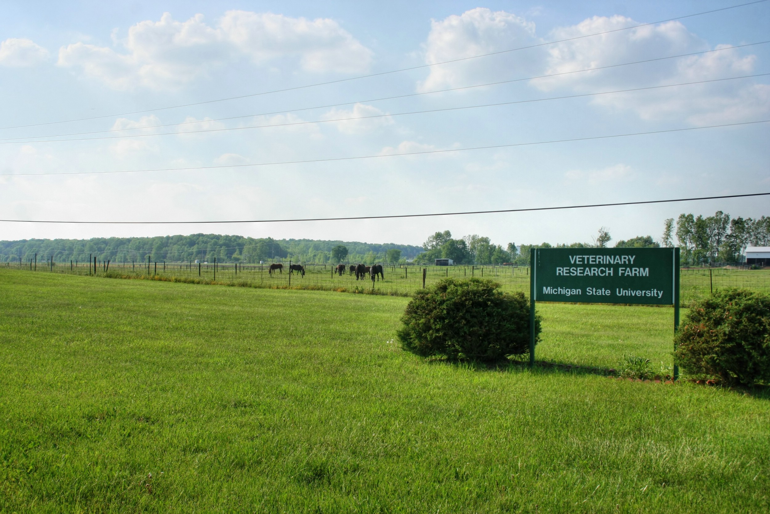 A photograph of the Veterinary Research Farm located off the Michigan State University campus in East Lansing, Michigan. This photograph is one of a series taken for Wikipedia by the submitter on May 28th, 2006 between the hours of 3pm and 6pm.